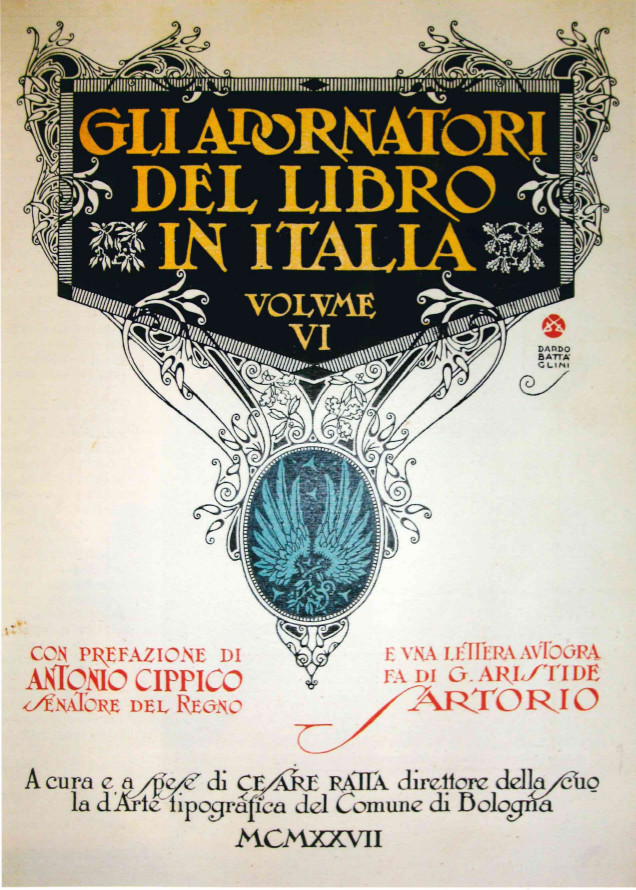 Cover of volume n. 6 of "Gli adornatori del libro in Italia", by Italian printmaker Cesare Ratta